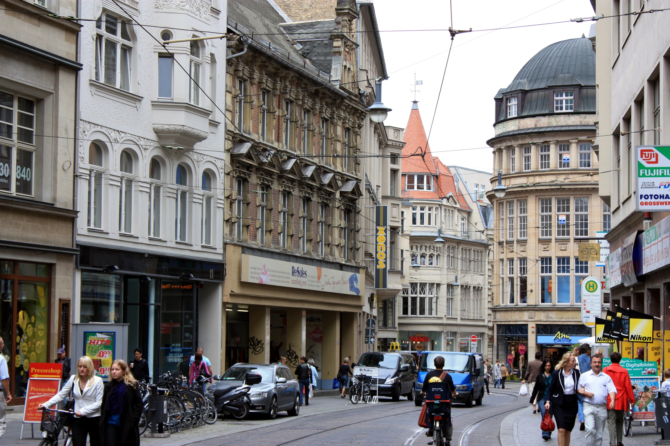 Halle (Saale), the street "Große Ulrichstraße"